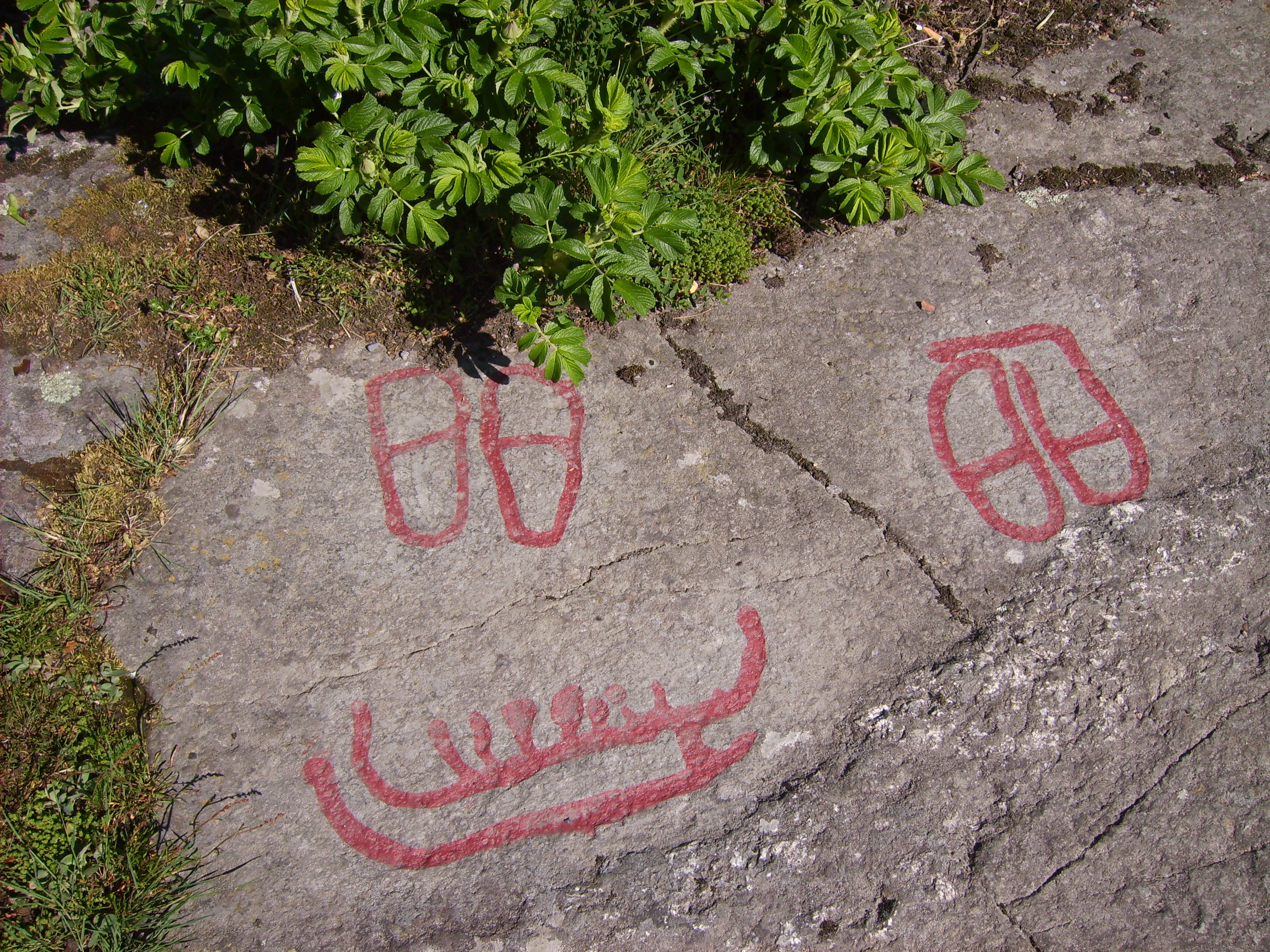 Photo by Harri Blomberg.